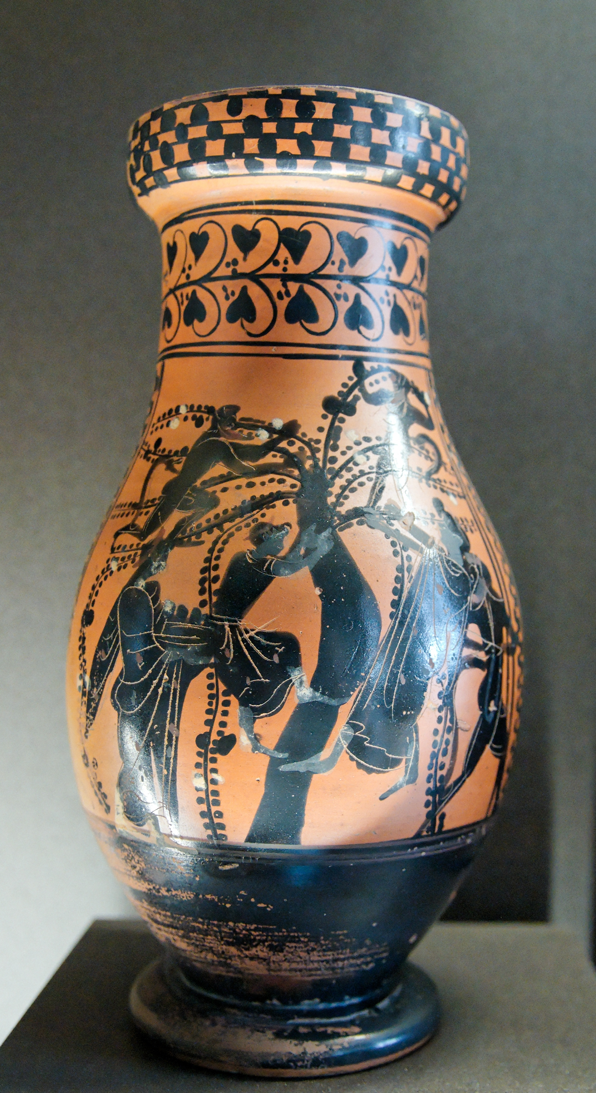 Sileni and maenads gathering olives. Attic black-figured olpe, ca. 500–490 BC. From Capua.